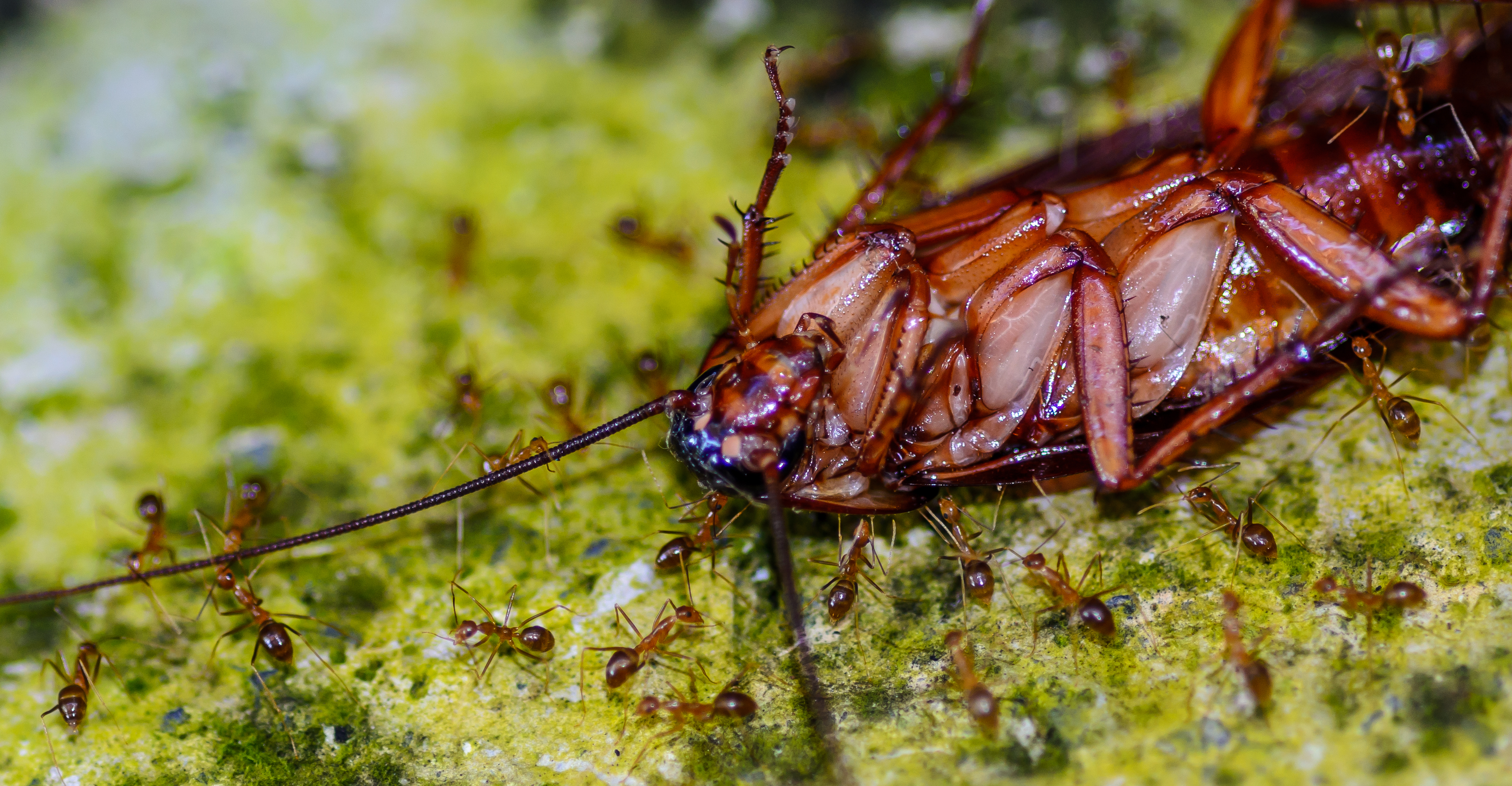 Anoplolepis gracilipes (yellow crazy ants) moving dead Blattidae sp. (cockroach) toward their nest. Photo taken on Pohnpei, Federated States of Micronesia